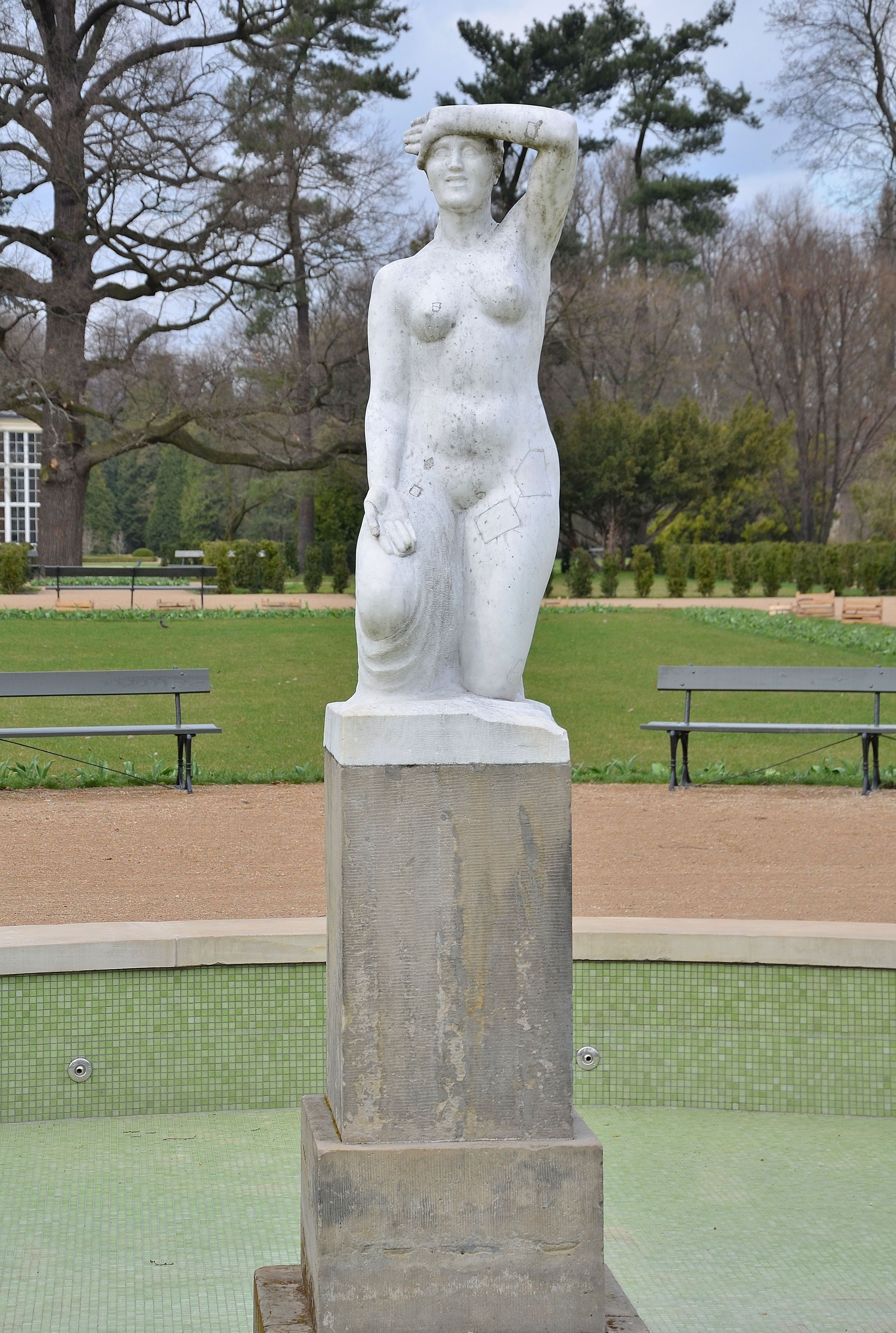 Statute Jutrzenka by Zofia Trzcińska-Kamińska in Łazienki Garden in Warsaw